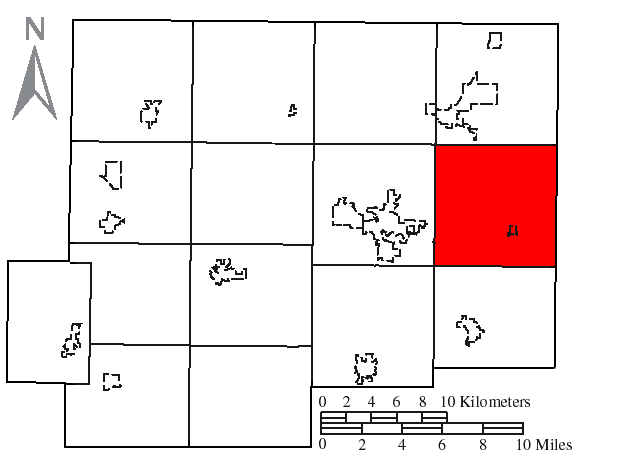 Made by the US Census and modified by myself